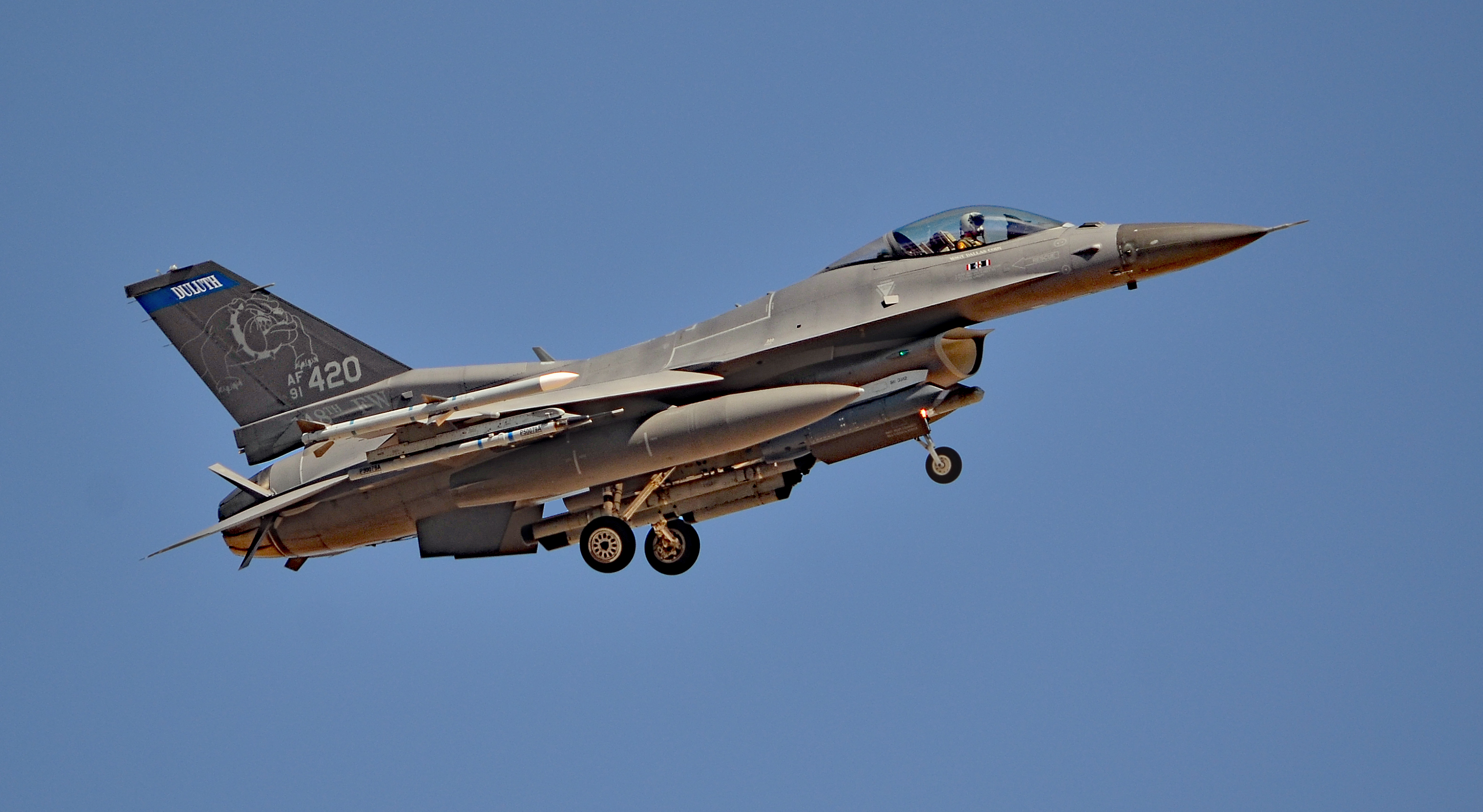 F-16 Fighting Falcon at Nellis Air Force Base